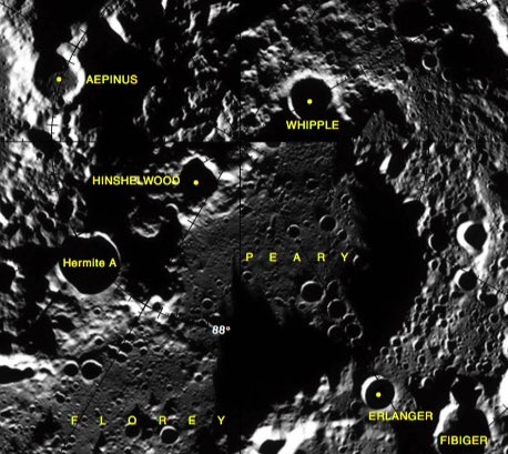 Part of the chart LAC-1 used for the presentation.